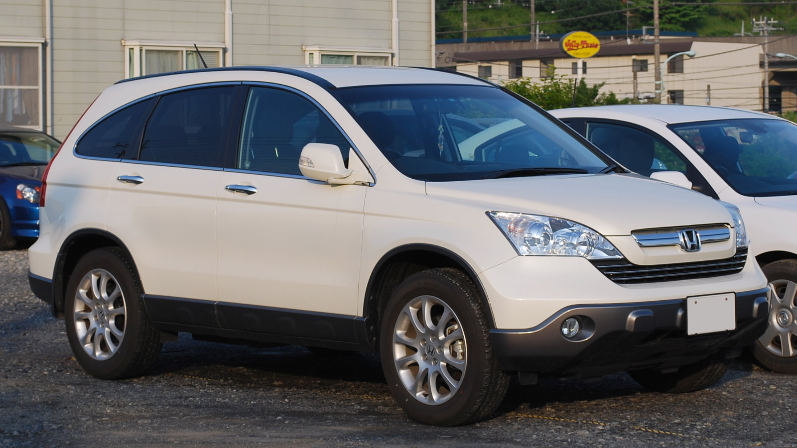 3rd generation Honda CR-V (2006/10 - )